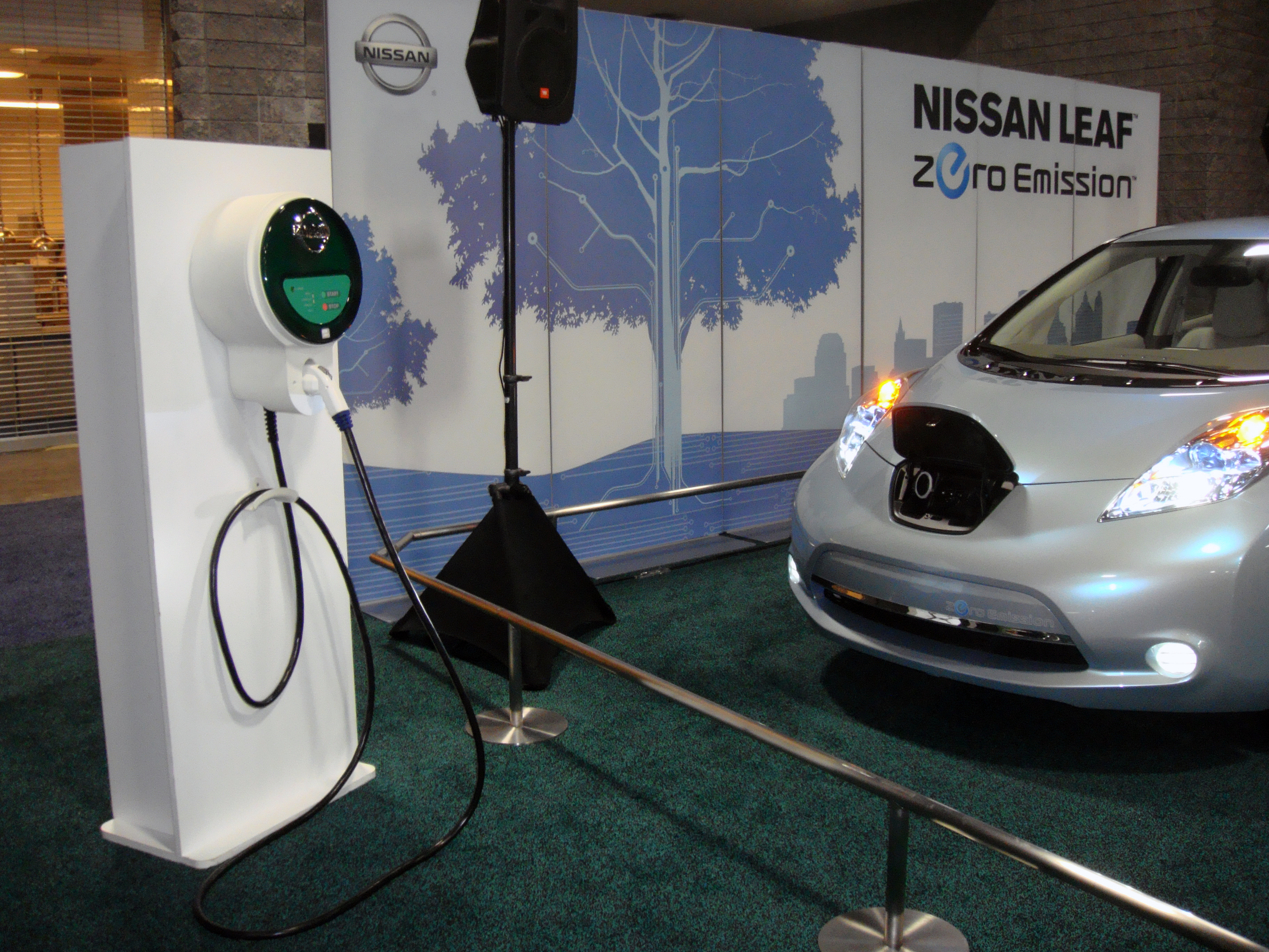 Nissan Leaf electric vehicle and recharging station at the 2010 Washington Auto Show